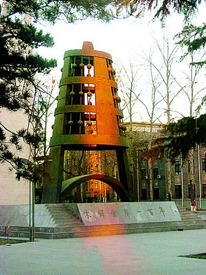 bell